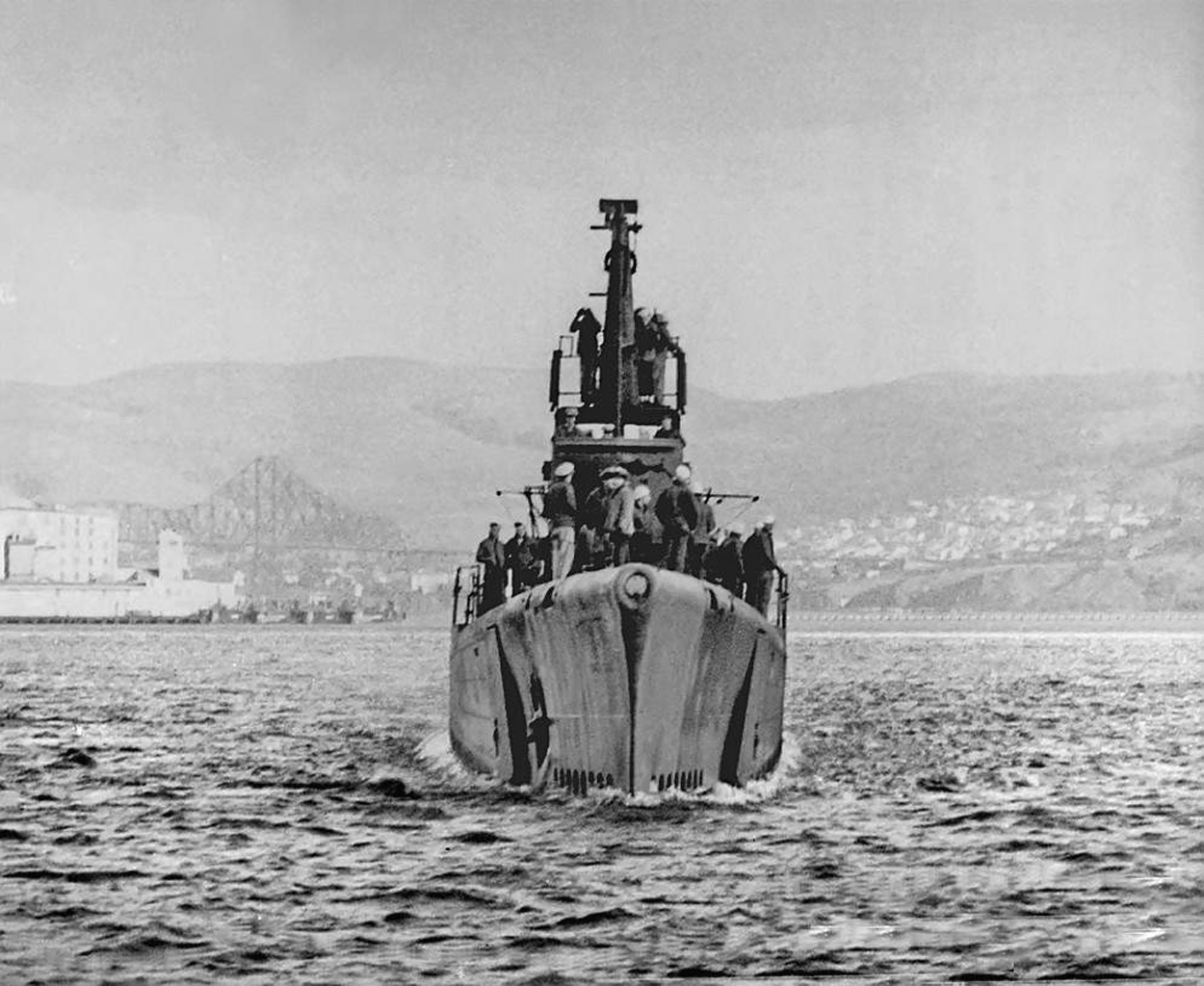 USS Albacore (SS-218) off Mare Island on 28 April 1944.